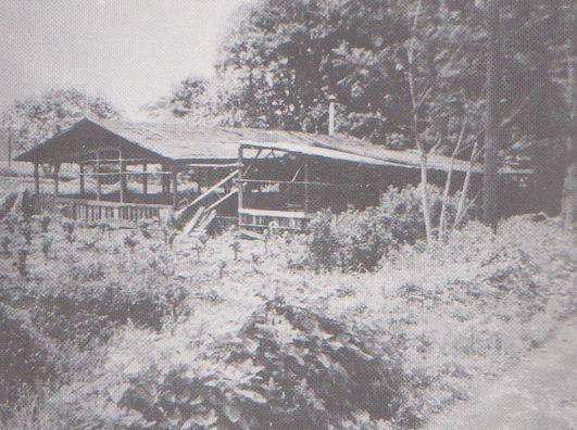 The photo of the Ishida pig farm.